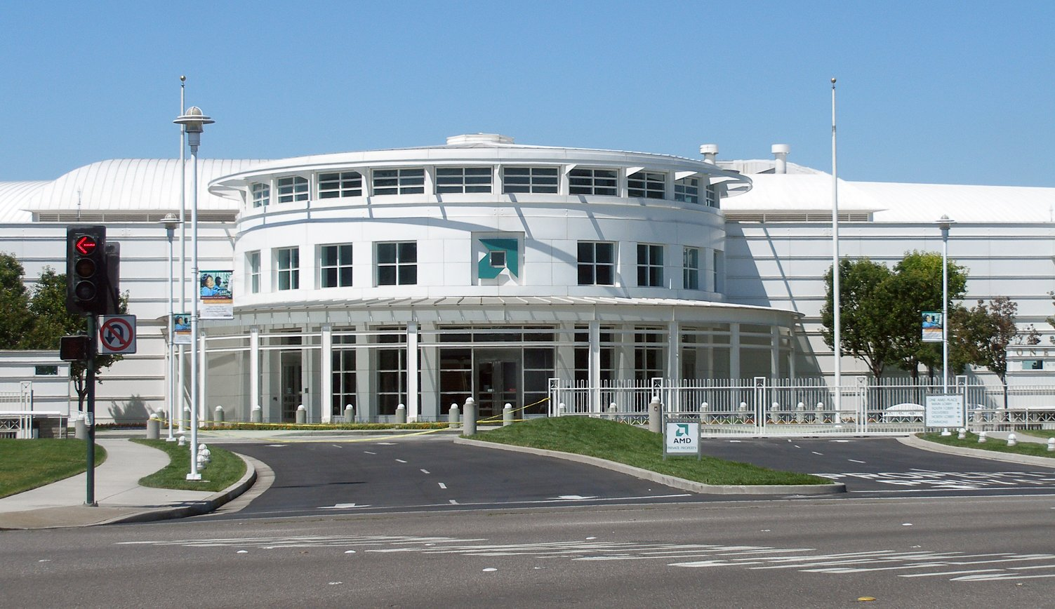 HQ of AMD in Sunnyvale, CA, USA.